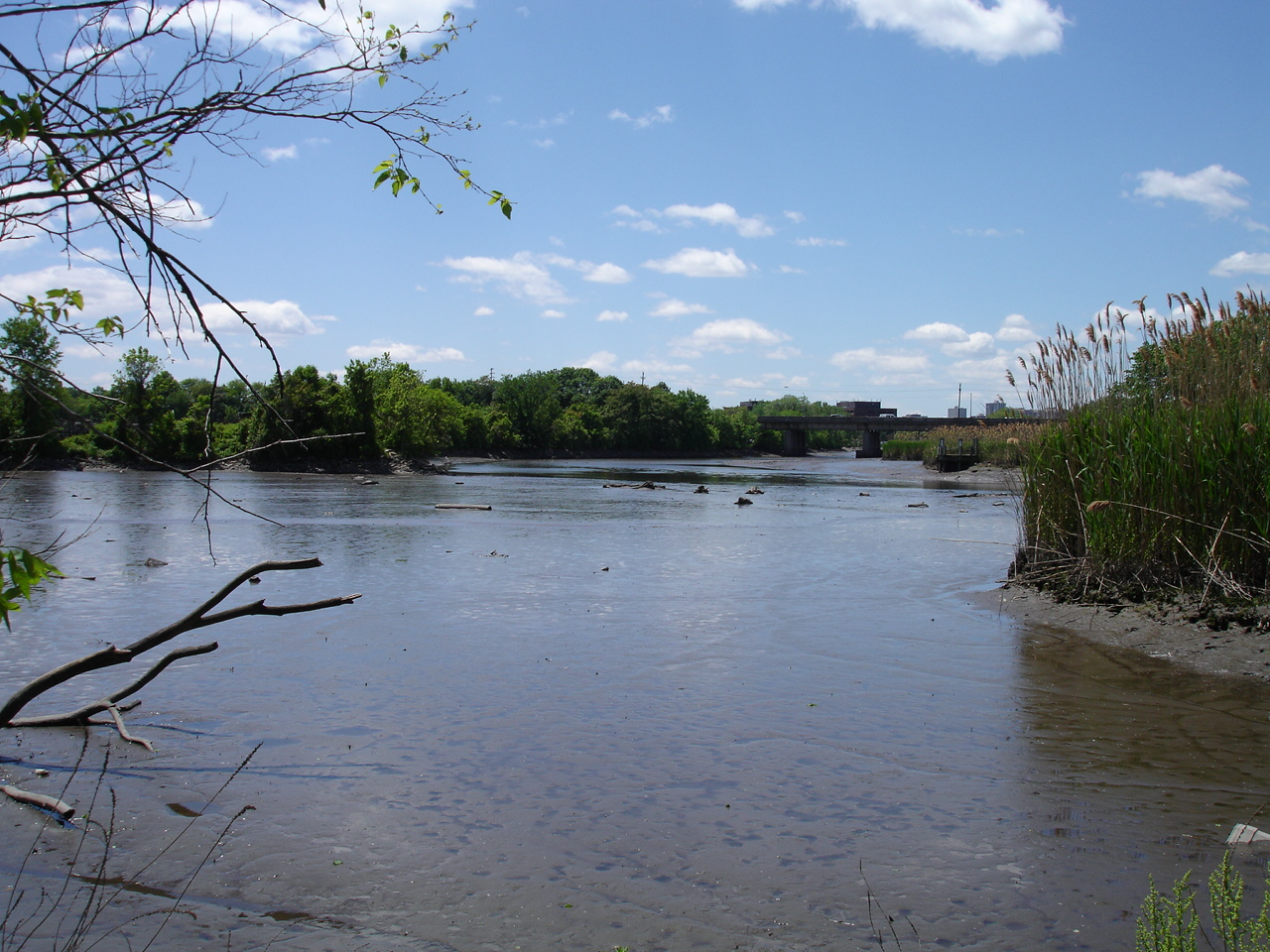 A picture of the Hackensack River I took myself in Teaneck, NJ.